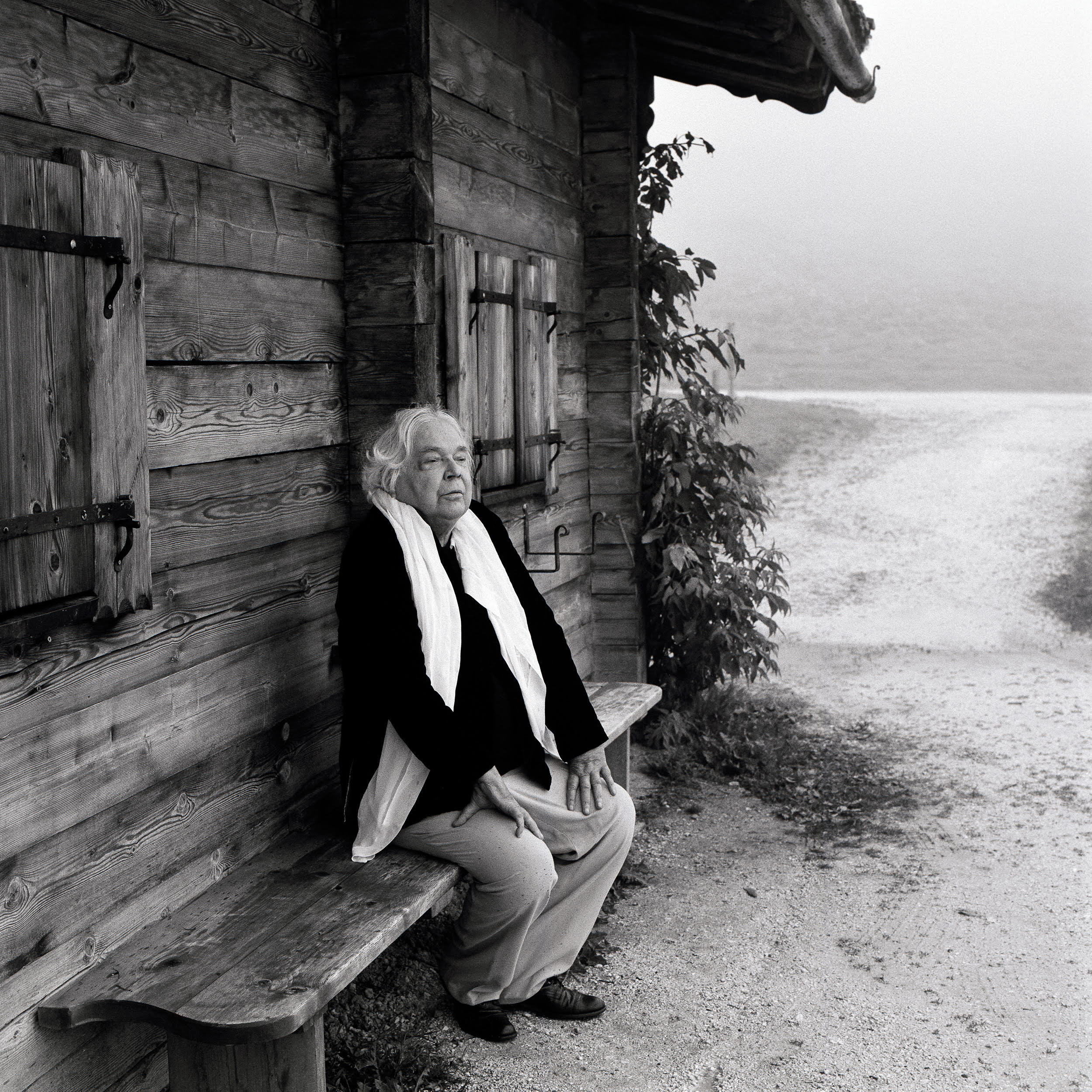 Thomas Harlan portrayed by Oliver Mark, Berchtesgadener Land 2007